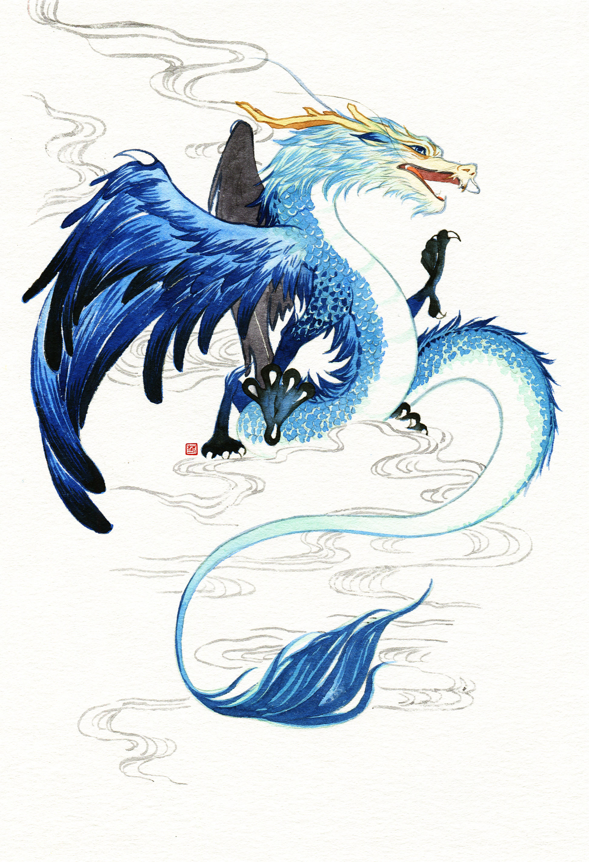 Yinglong from the comic Modern Life of the Immortals